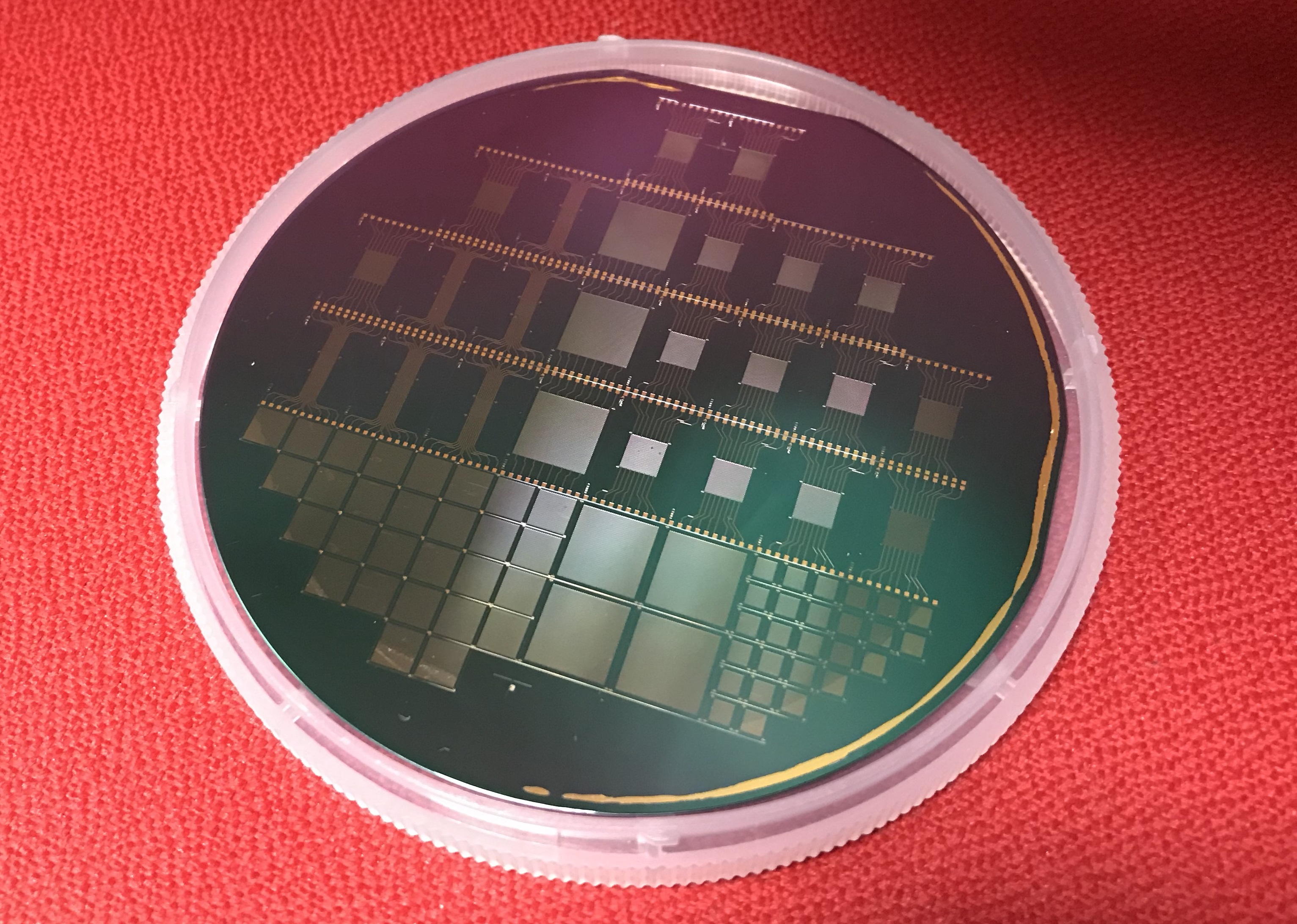 A processed full silicon wafer with p and n type materials electroplated to fabricate micro thermoelectric devices